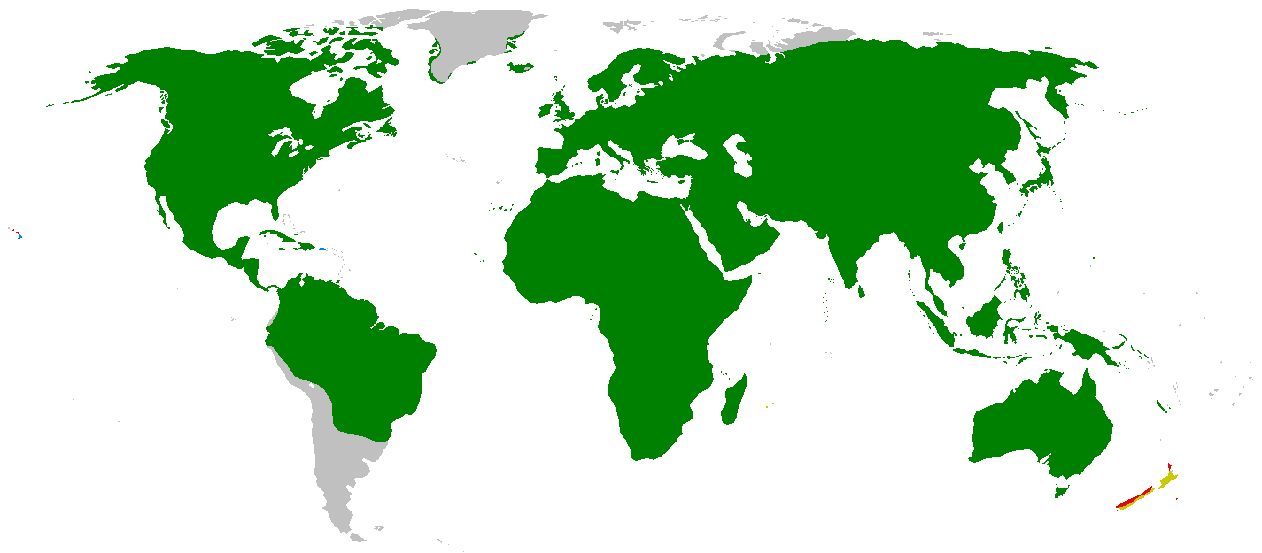 Map showing the combined distribution of species in the family Corvidae (crows, jays and magpies). Key: Green: Native range Blue: Recently extinct (post 1500) range (Hawaii, Malta, Puerto Rico) Red: Historically extinct (pre 1500) range (Hawaii, New Zealand) Yellow: Introduced range (New Zealand, Mauritius, Réunion) Compiled from info in Madge & Burn (1993) Crows and Jays, Helm; and Goodwin (1986) Crows of the World ed.2, British Museum.